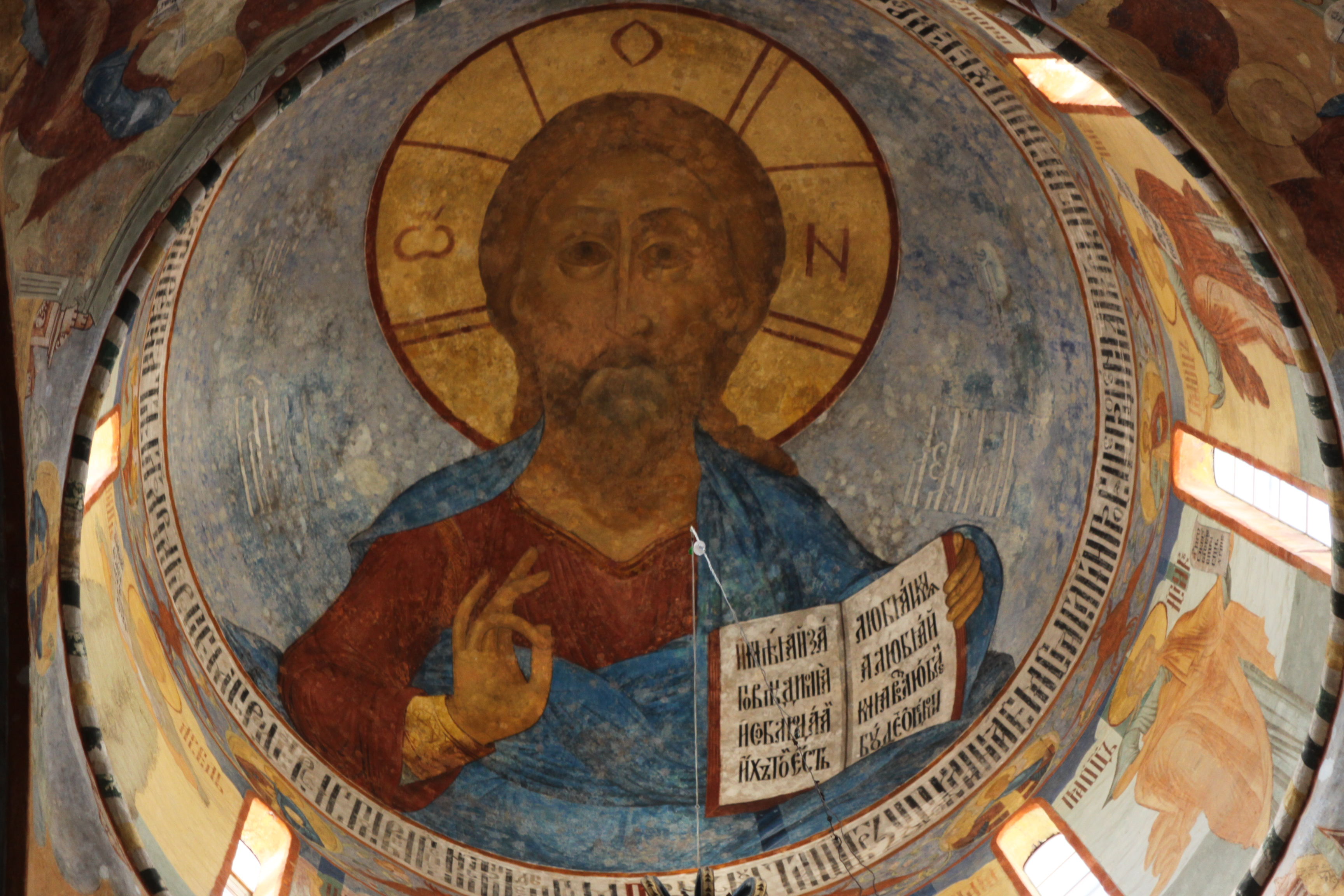 St. Sophia Cathedral in Vologda. Painting of the dome. Christ Almighty.